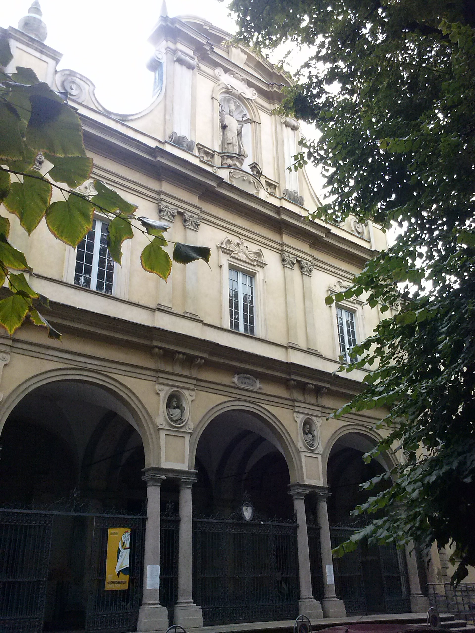 Basilica of San Savino, municipality of Piacenza, Italy